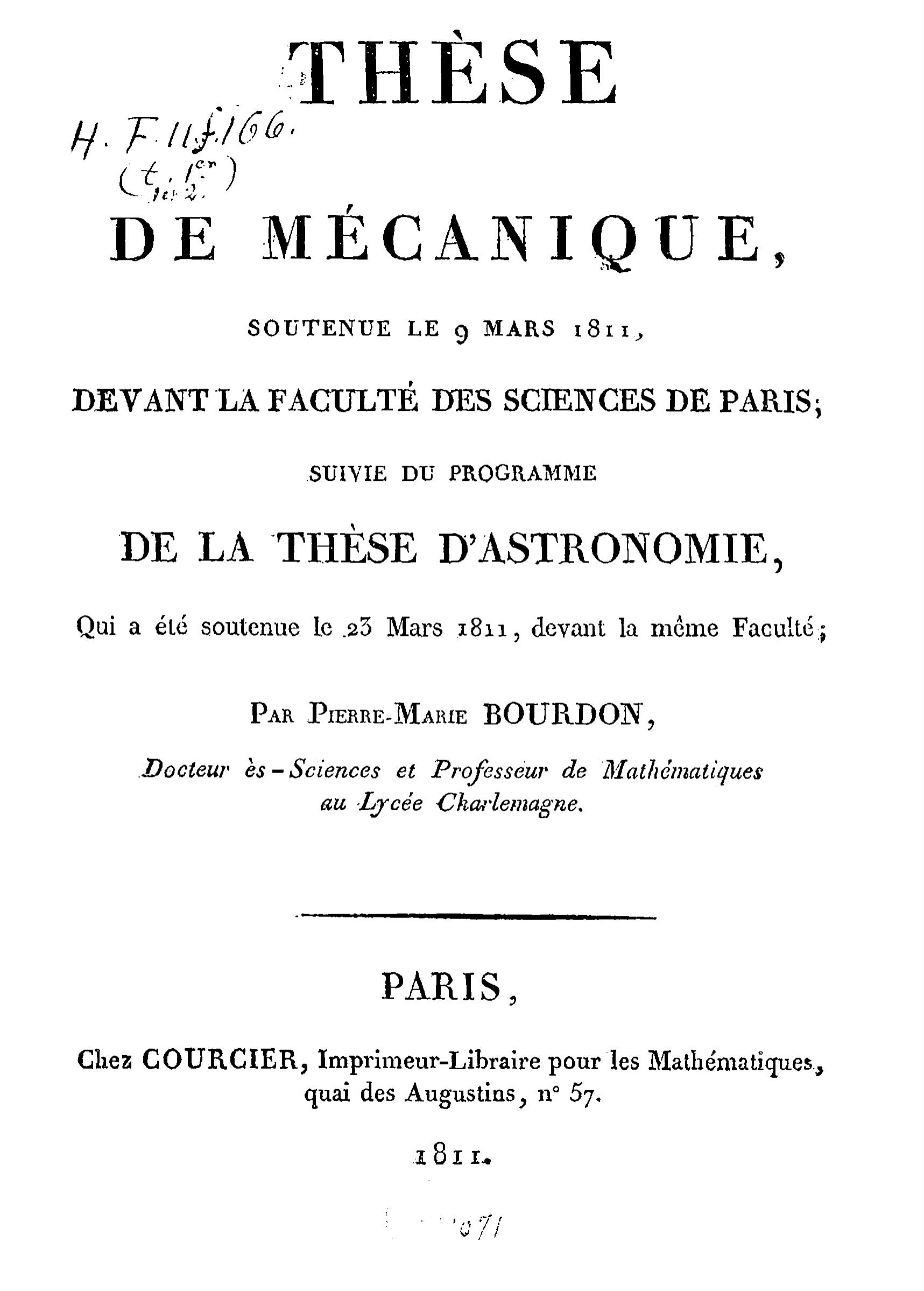 Cover of the first theses for the doctorate in sciences in France